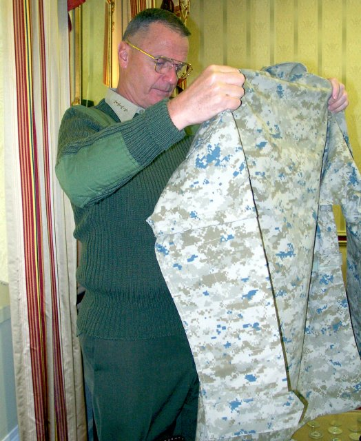 General James L. Jones of the United States Marine Corps examines an early MCCUU/MARPAT prototype.